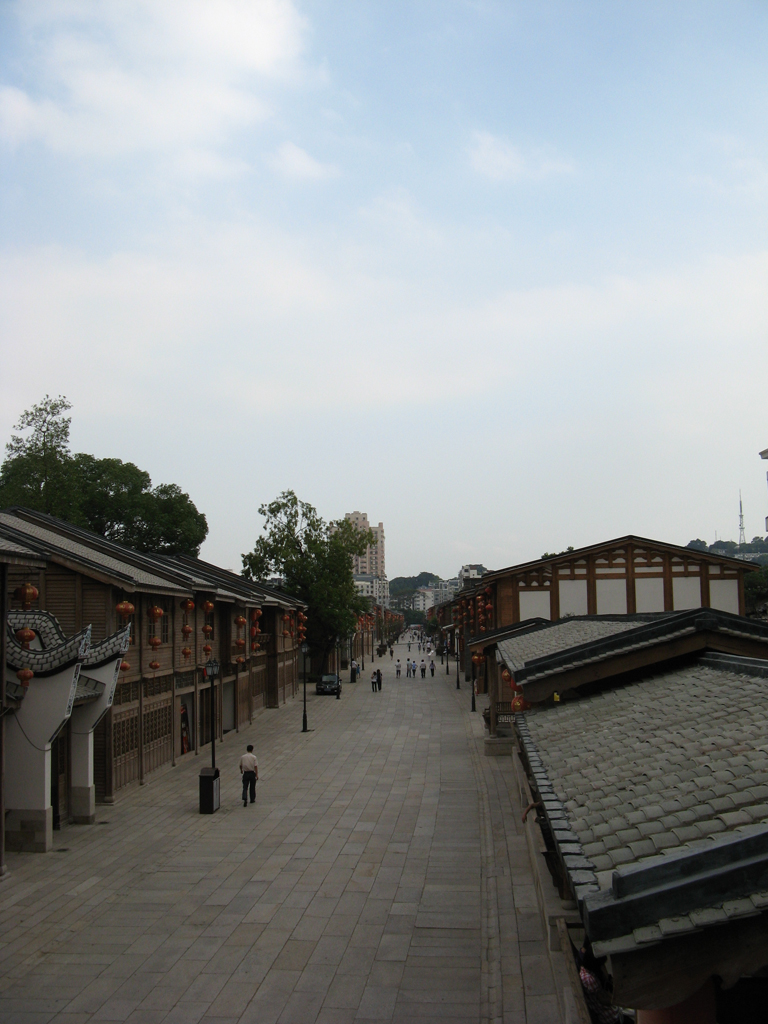 Three Lanes & Seven Alleys, Fuzhou